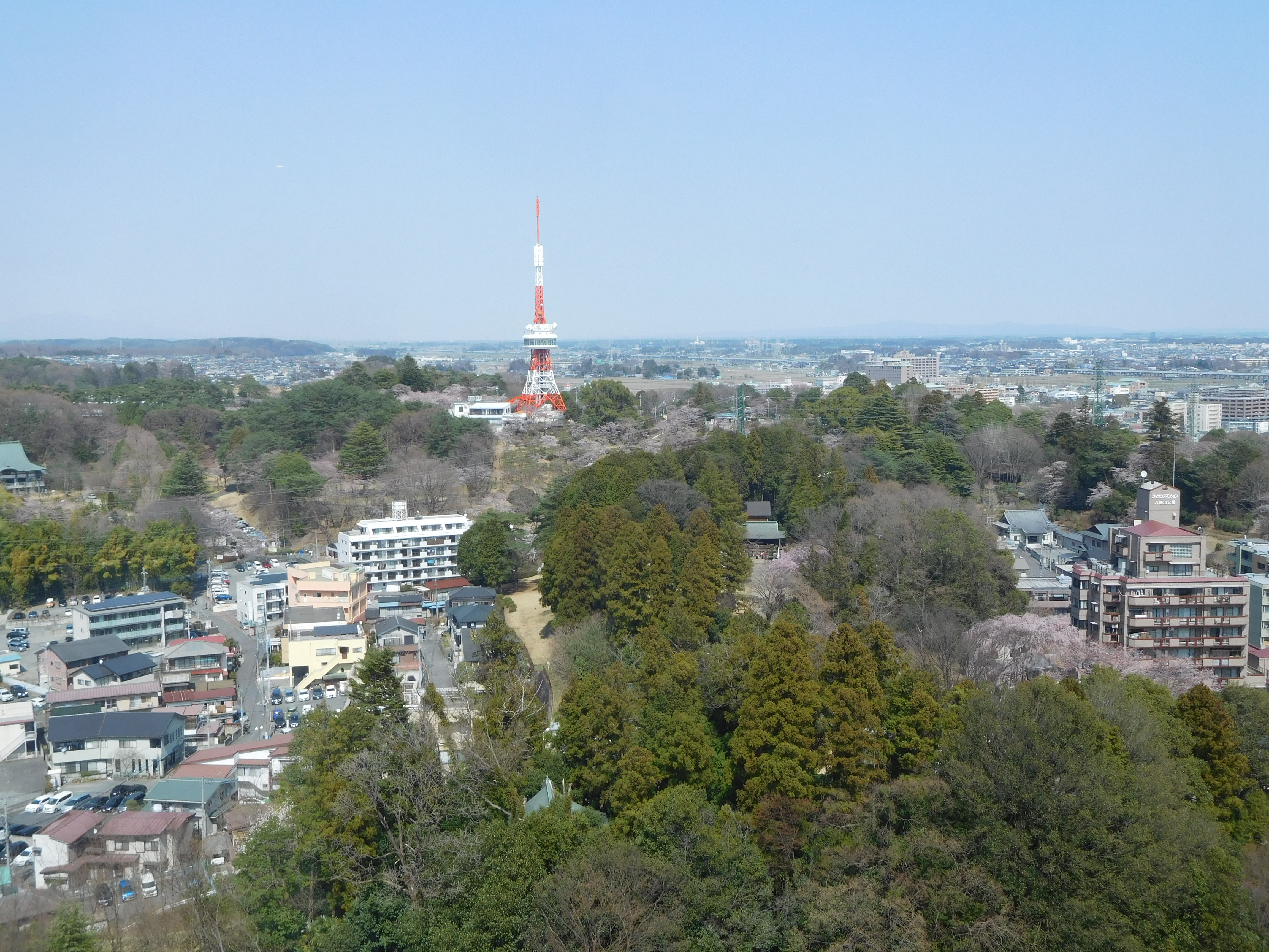 This is Hachimanyama Park view from Tochigi prefectural office, Japan.